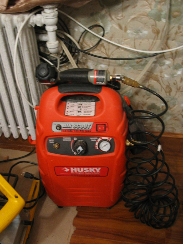 Air compressor supplies air to operate a brad nailer.